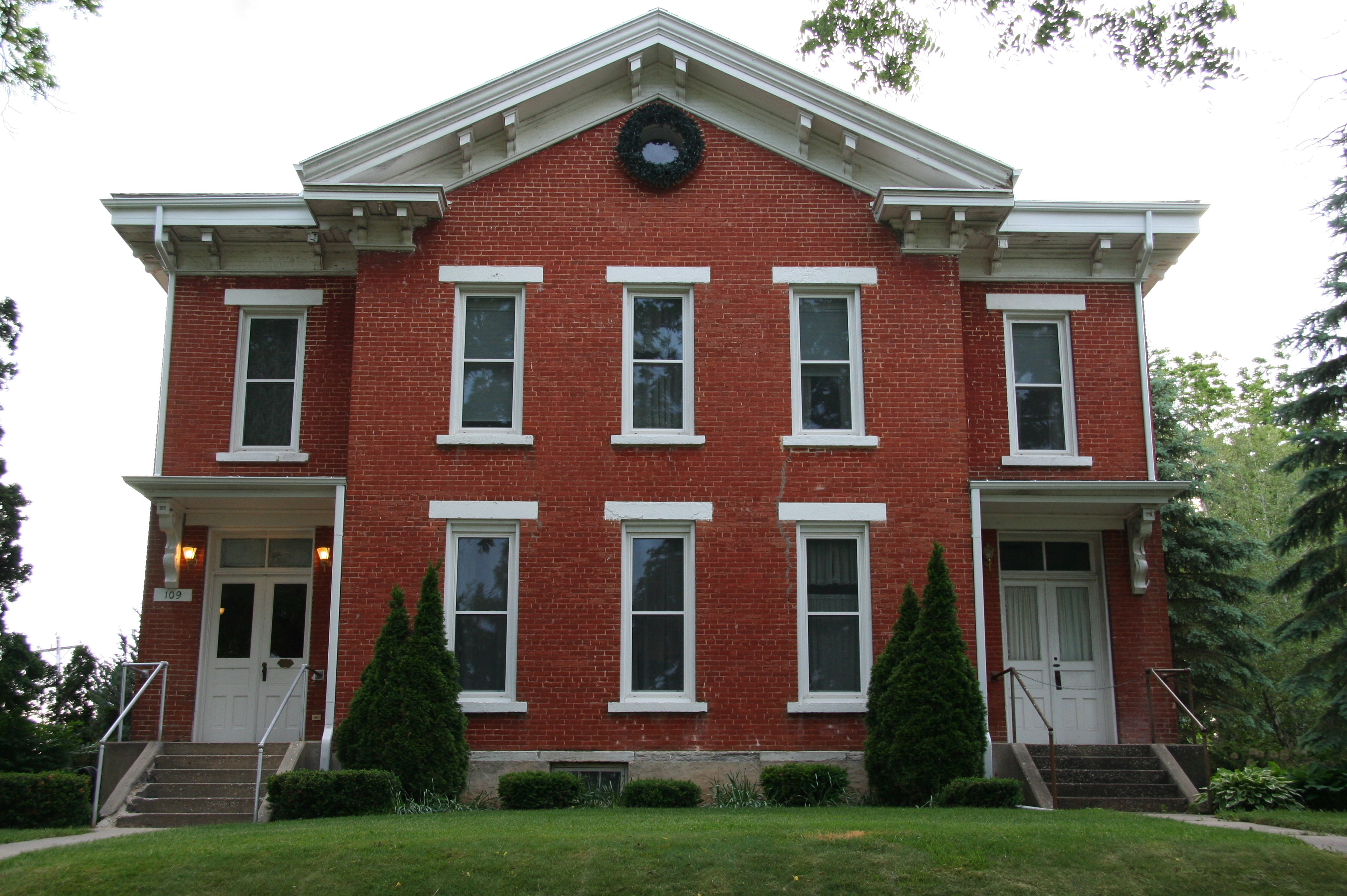 Historic Fillmore County Jail, built circa 1869, now the Jailhouse Inn Bed and Breakfast, seen from Houston Street in Preston, Minnesota